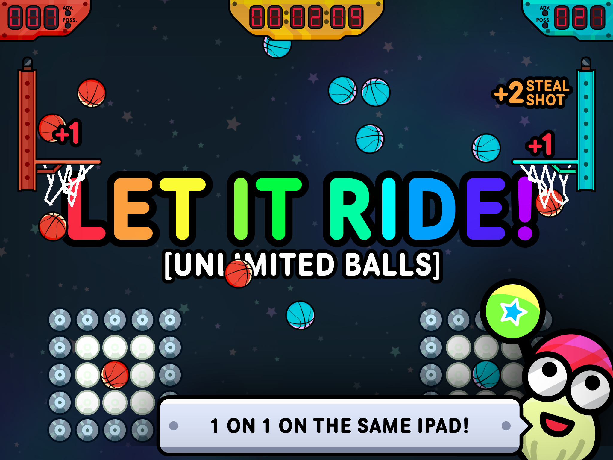 Screenshot from Gasketball